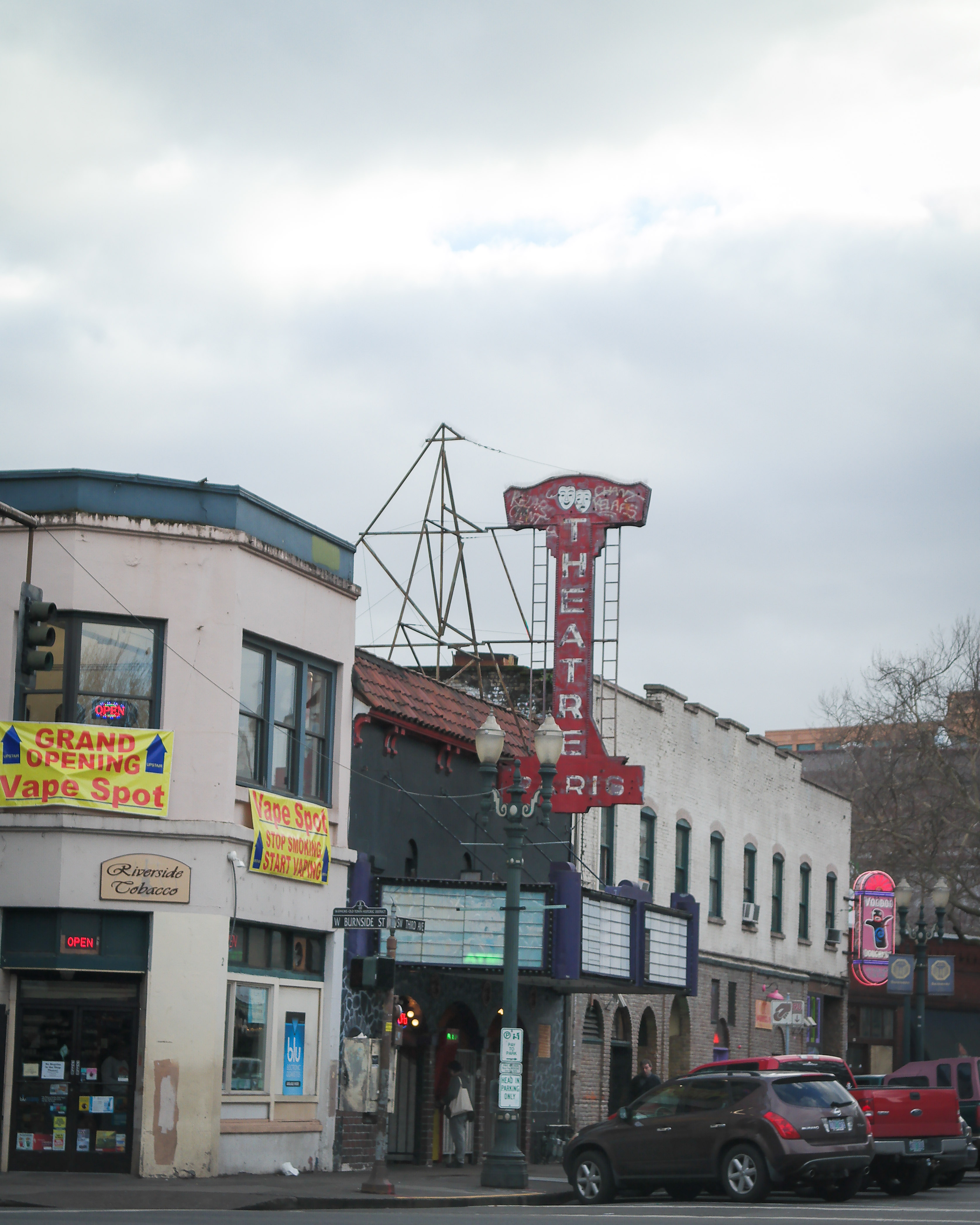 Riverside Tobacco, now vending electronic cigarettes in Portland, Oregon. Behind Riverside is Voodoo Doughnut and the Paris Art Theatre, a former triple-x movie house where the motto was, "More of the same only better!"